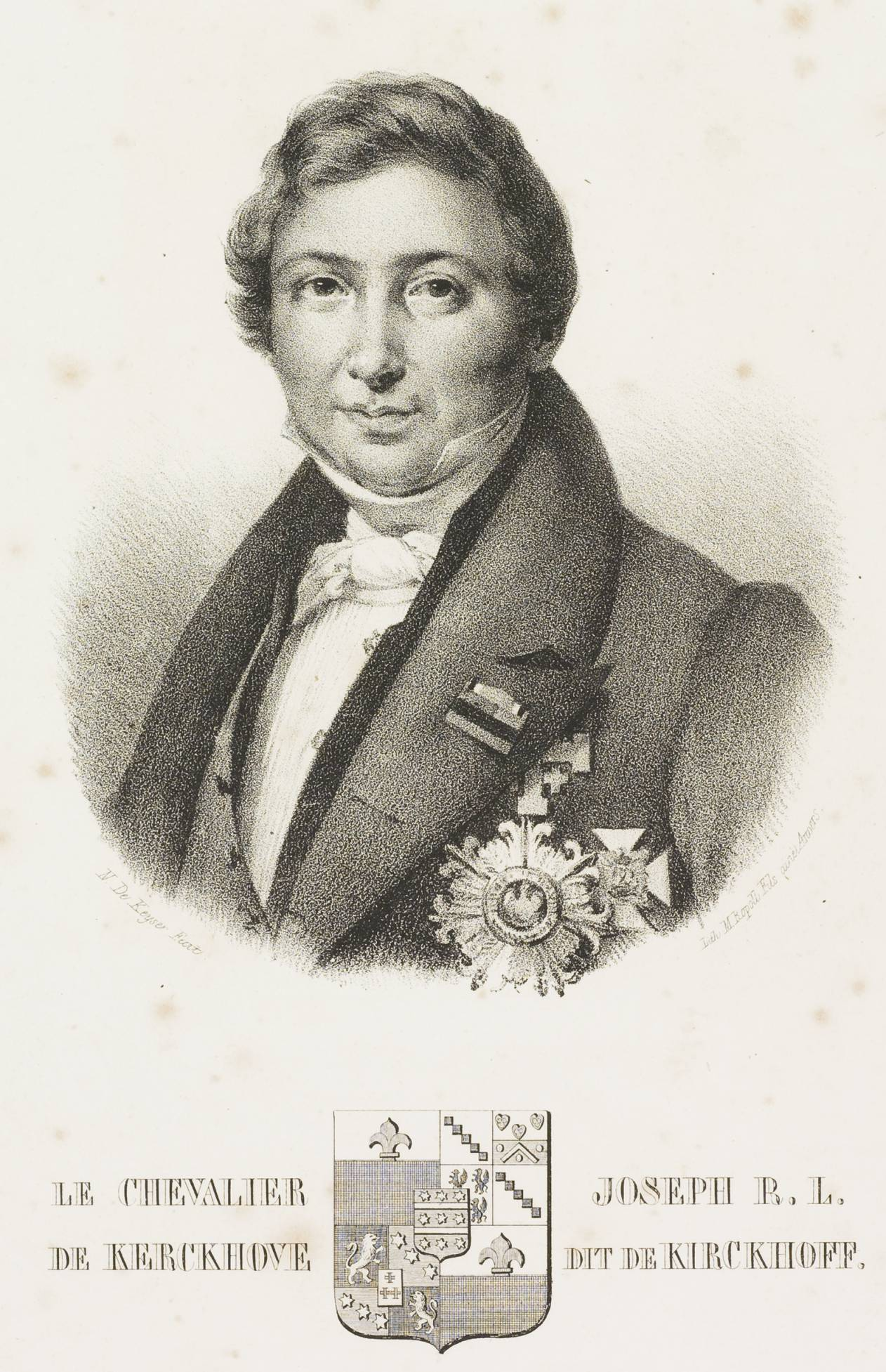 Joseph R. L. De Kerckhove, dit de Kirckhoff